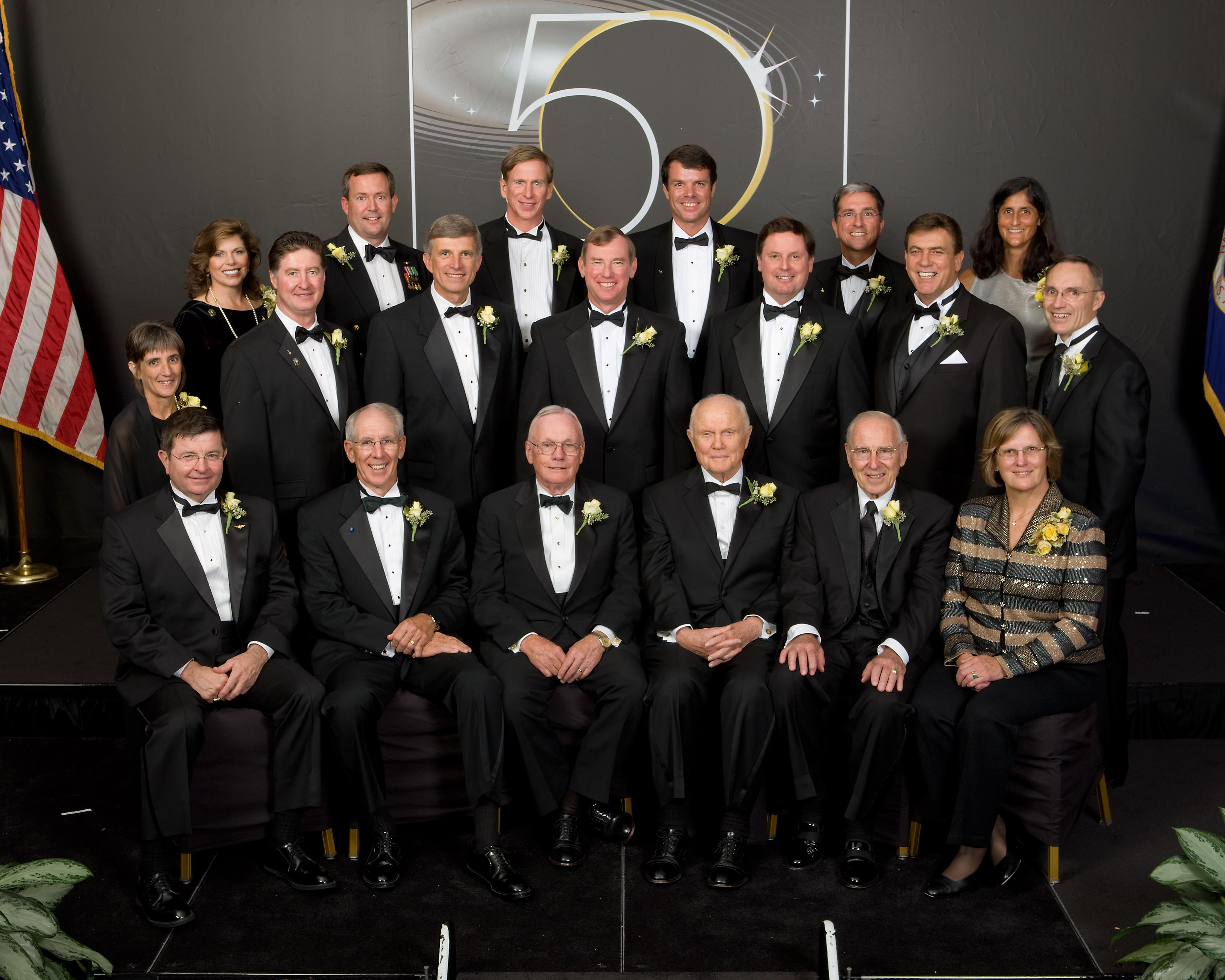 An all-star gathering of legendary American astronauts appeared in Cleveland August 29, 2008 to celebrate NASA's 50th anniversary. John Glenn, the first American to orbit Earth, Neil Armstrong, the first person to walk on the moon, James Lovell, veteran of two Apollo missions, and Kathryn Sullivan, the first woman to walk in space joined 15 other astronauts from Ohio. From left to right in the front row are Kenneth Cameron, Robert Springer, Neil Armstrong, John Glenn, Jim Lovell and Kathryn Sullivan. From left to right in the middle row are Nancy Currie, Terence Henricks, Ronald Sega, Curt Brown, Gregory Harbaugh, Thomas Hennen and Carl Walz. From left to right in the back row are Mary Weber, Michael Foreman, Michael Gernhardt, Kevin Kregel, Donald Thomas and Suni Williams.